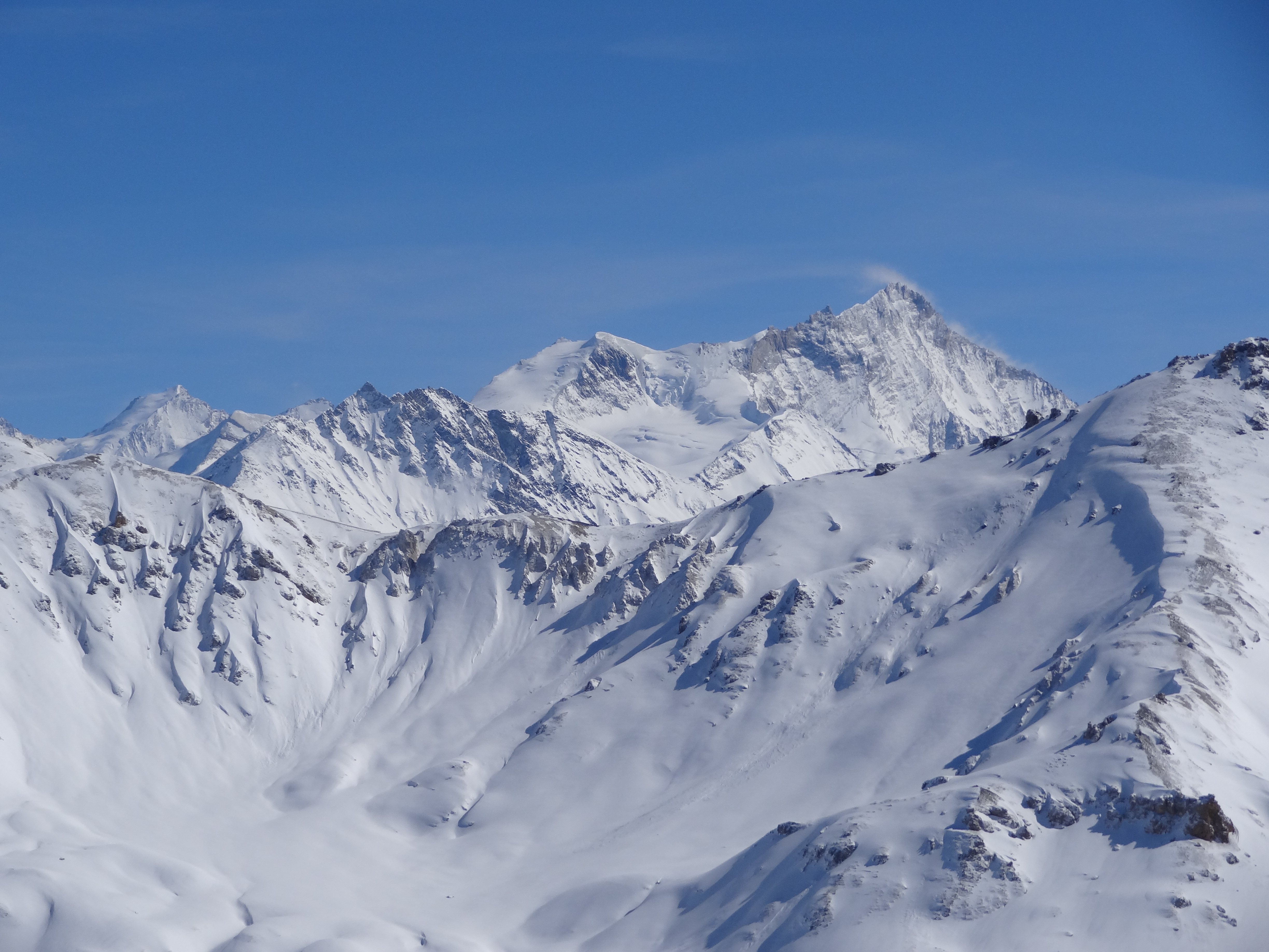 Mt Noble's sight toward "Weisshorn" on winter